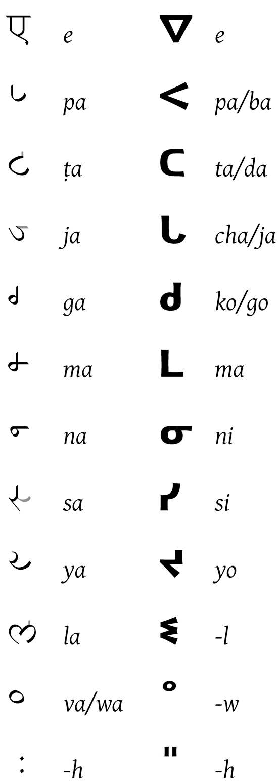 Comparison of cursive Devanagari combining forms with Canadian syllabics